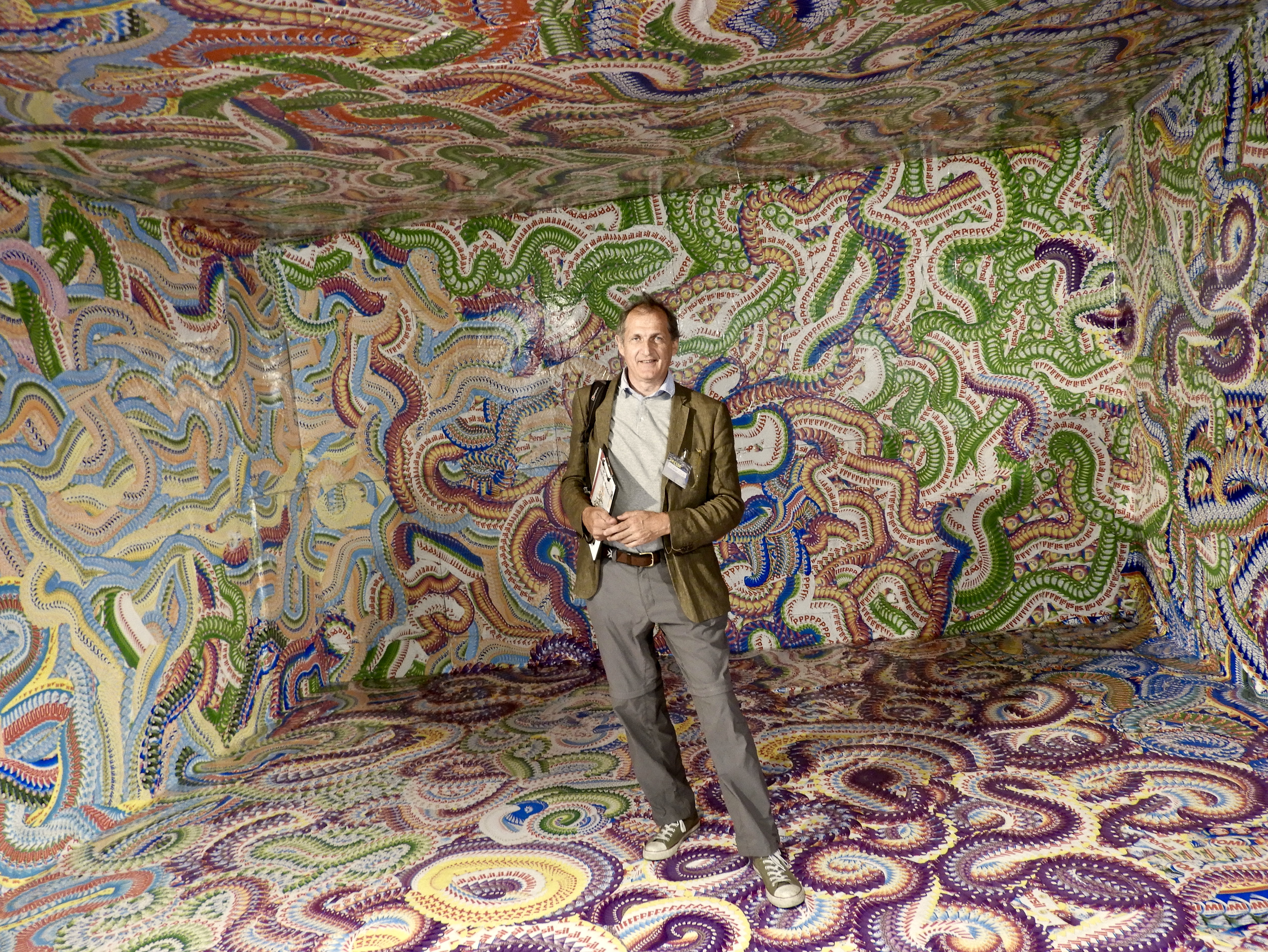 Robert Elwes (musical Travel Diarist) at ART BODENSEE 2019